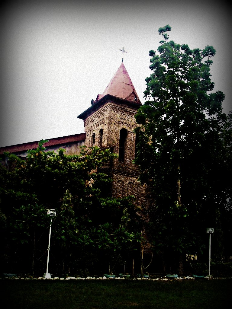 Orig. Flickr desc: There are no records on when the church was constructed which has the distinction as one of the few churches built away from the plaza.